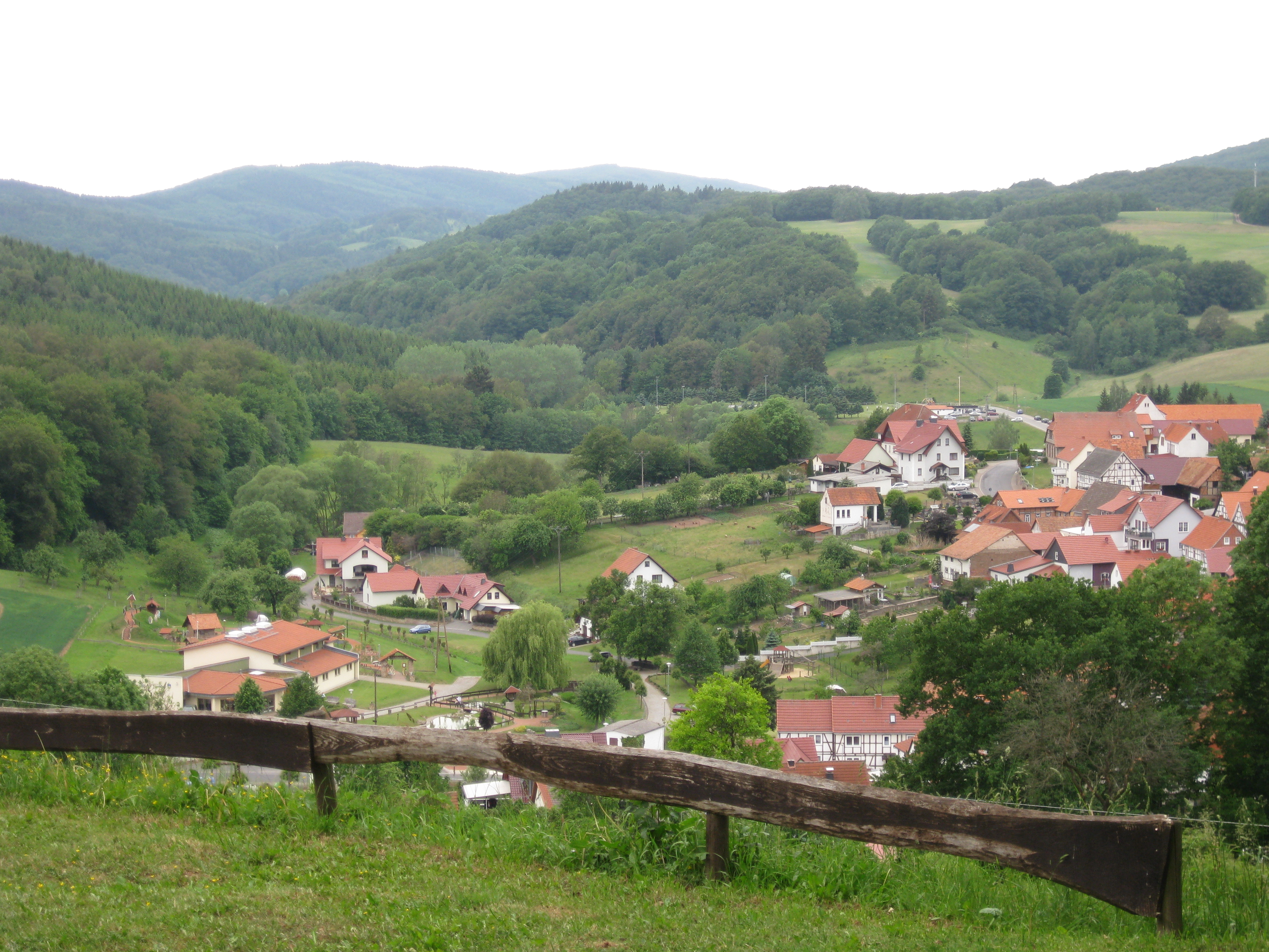 Mackenrode in the Eichsfeld